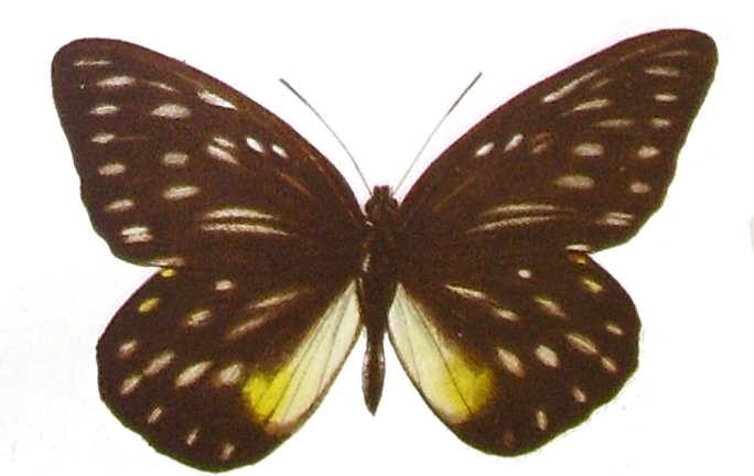 Prioneris thestylis female